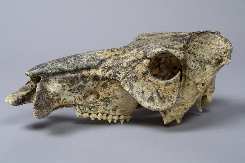 A Pleistocene flat-headed peccary skull (Platygonus compressus) in the permanent collection of The Children’s Museum of Indianapolis